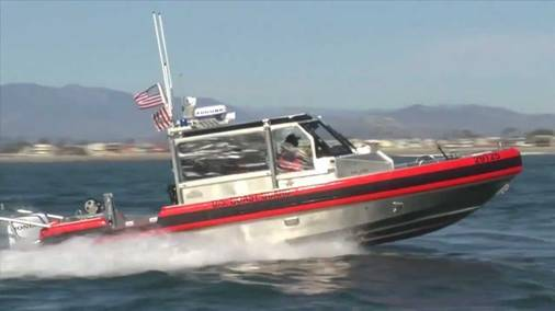 USCGC 45-foot Response Boat-Small. Original caption: "As of May 2, 2014, 83 of 99 RB-S II boats ordered have been delivered. The Response Boat-Small (RB-S) II is a high-speed, easily deployable asset designed to operate year-round in shallow waters along coastal borders. Up to 470 boats will be delivered to shore units throughout the Coast Guard to perform port and waterway security, search and rescue, drug and migrant interdiction, environmental and other law enforcement missions. "